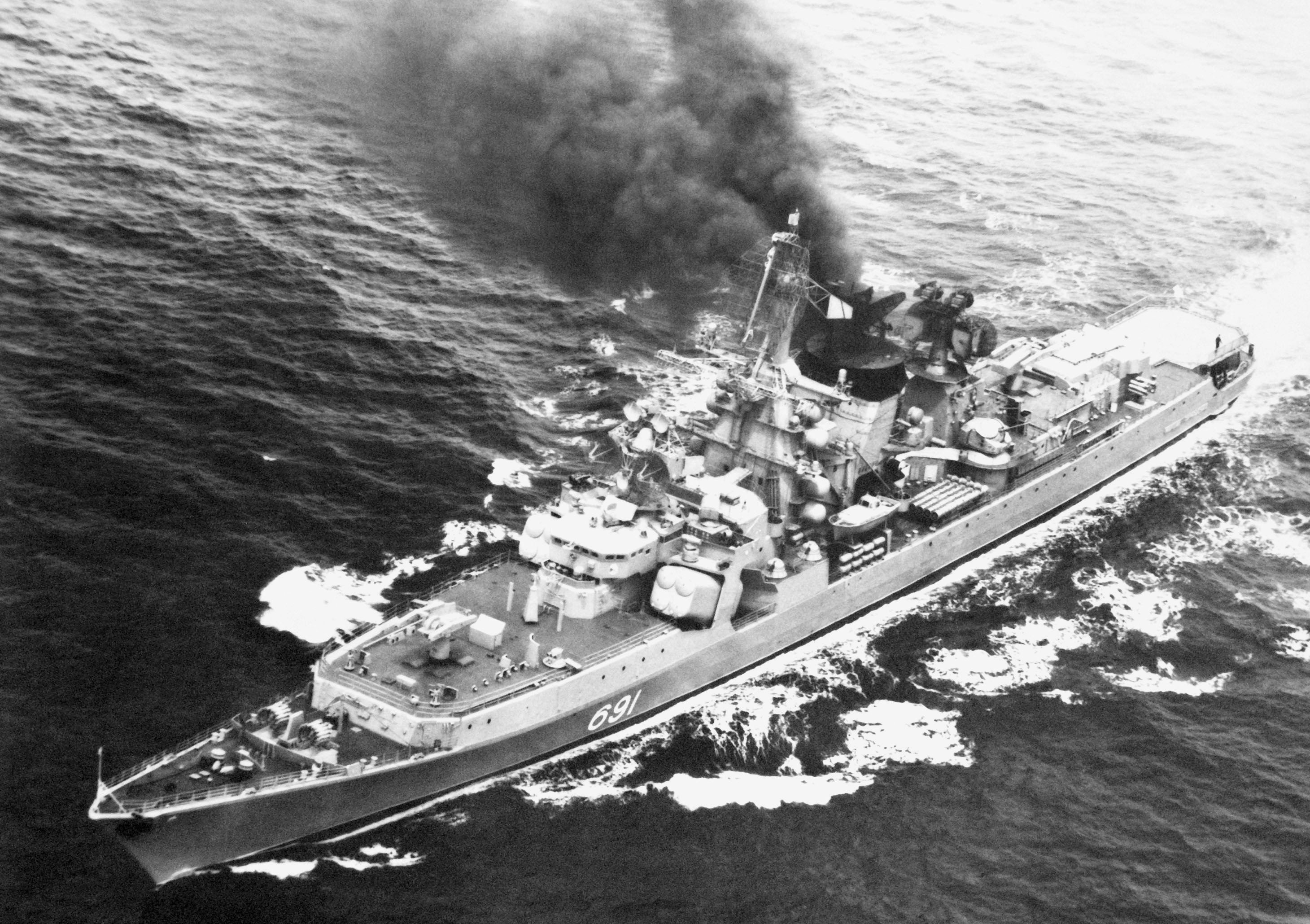 An elevated port bow view of a Soviet Kresta II class guided missile cruiser underway.